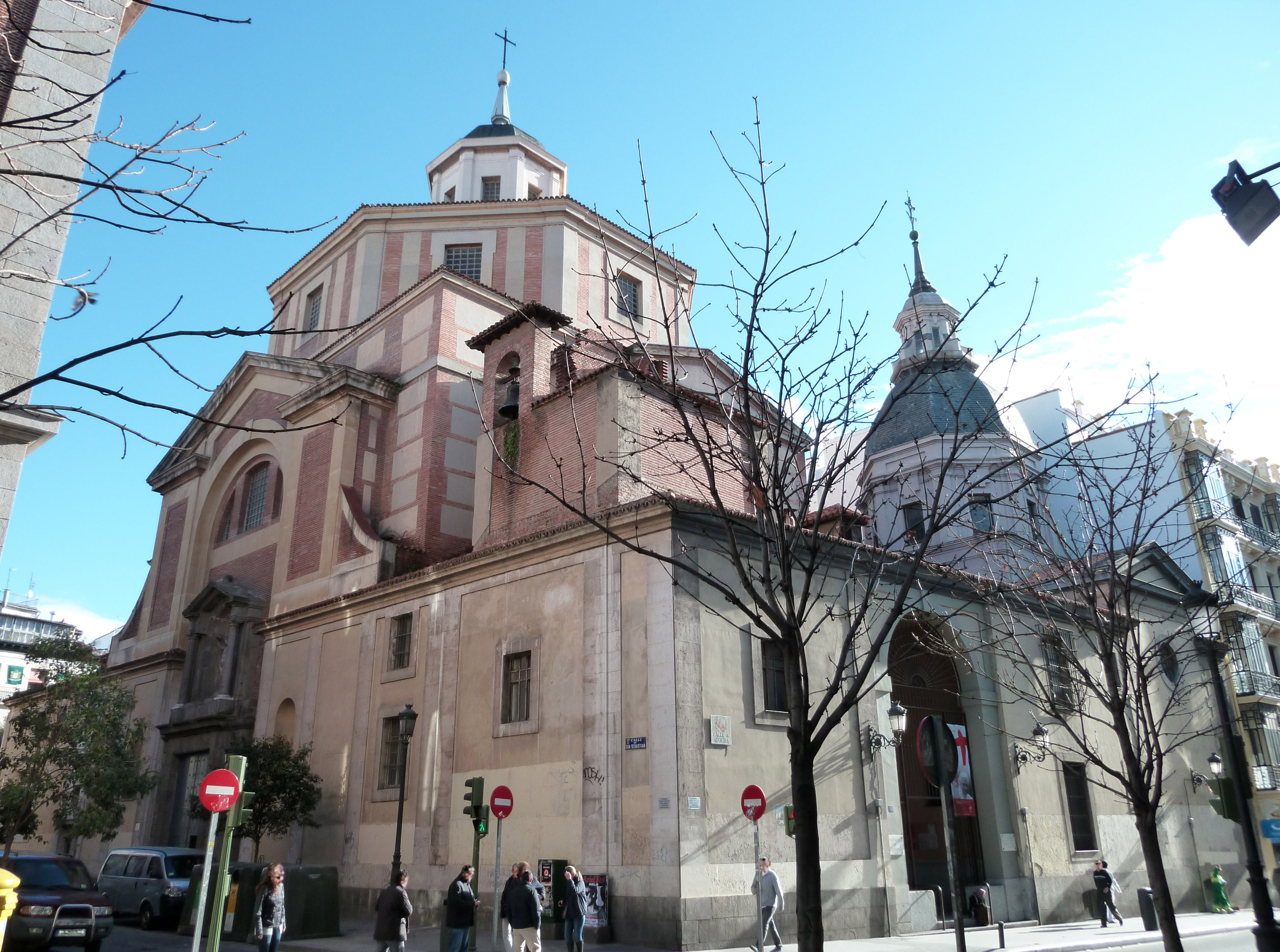 Façade of Saint Sebastian Church in Madrid (Spain), at 39 Calle de Atocha (street) in Centro district.